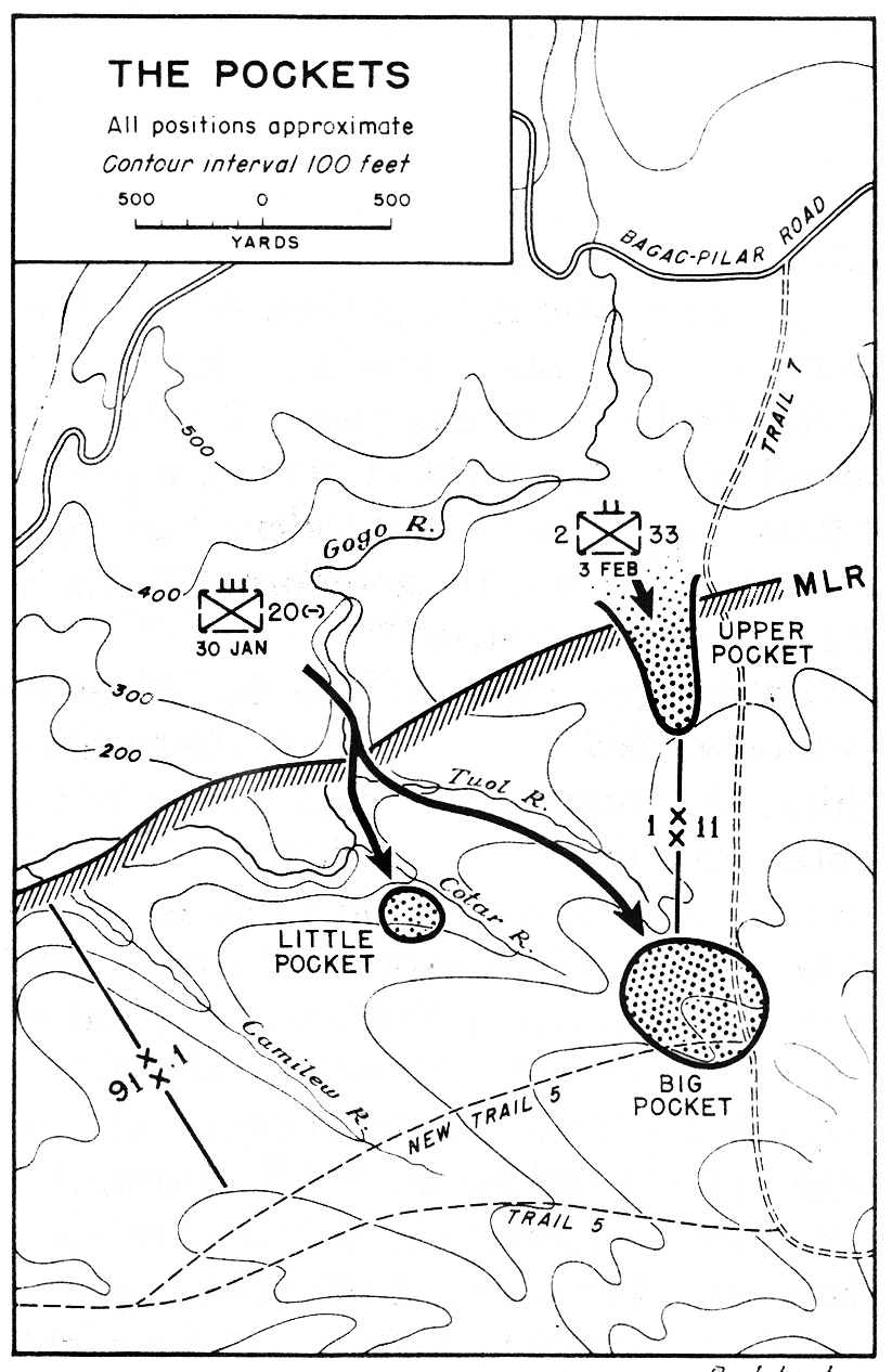 Battle of the Pockets on the the Orion-Bagac Line in Bataan, January – February 1942